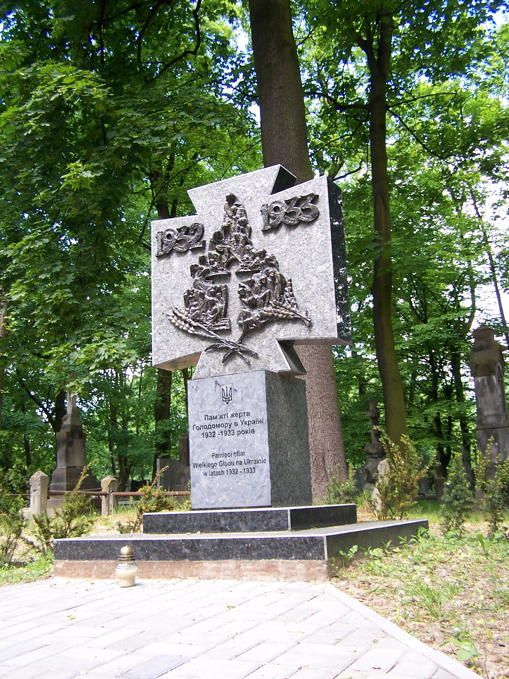 Monument by Gennadij Jerszow on the Warsaw, the Poland (2009)